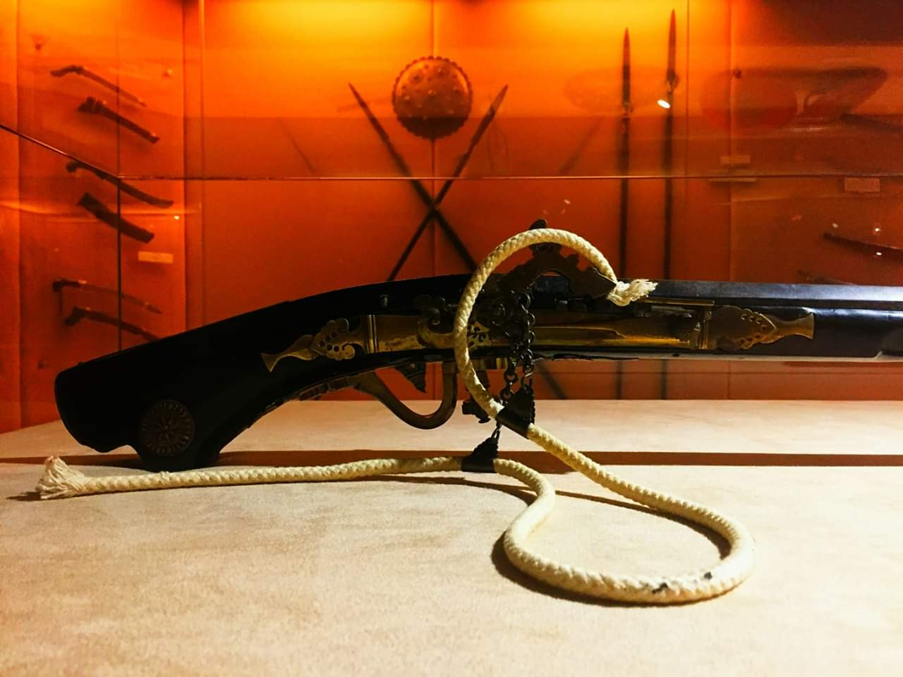 Istinggar, a classical Malay gun, displayed in Muzium Warisan Melayu (Malay Heritage Museum), Serdang, Selangor.